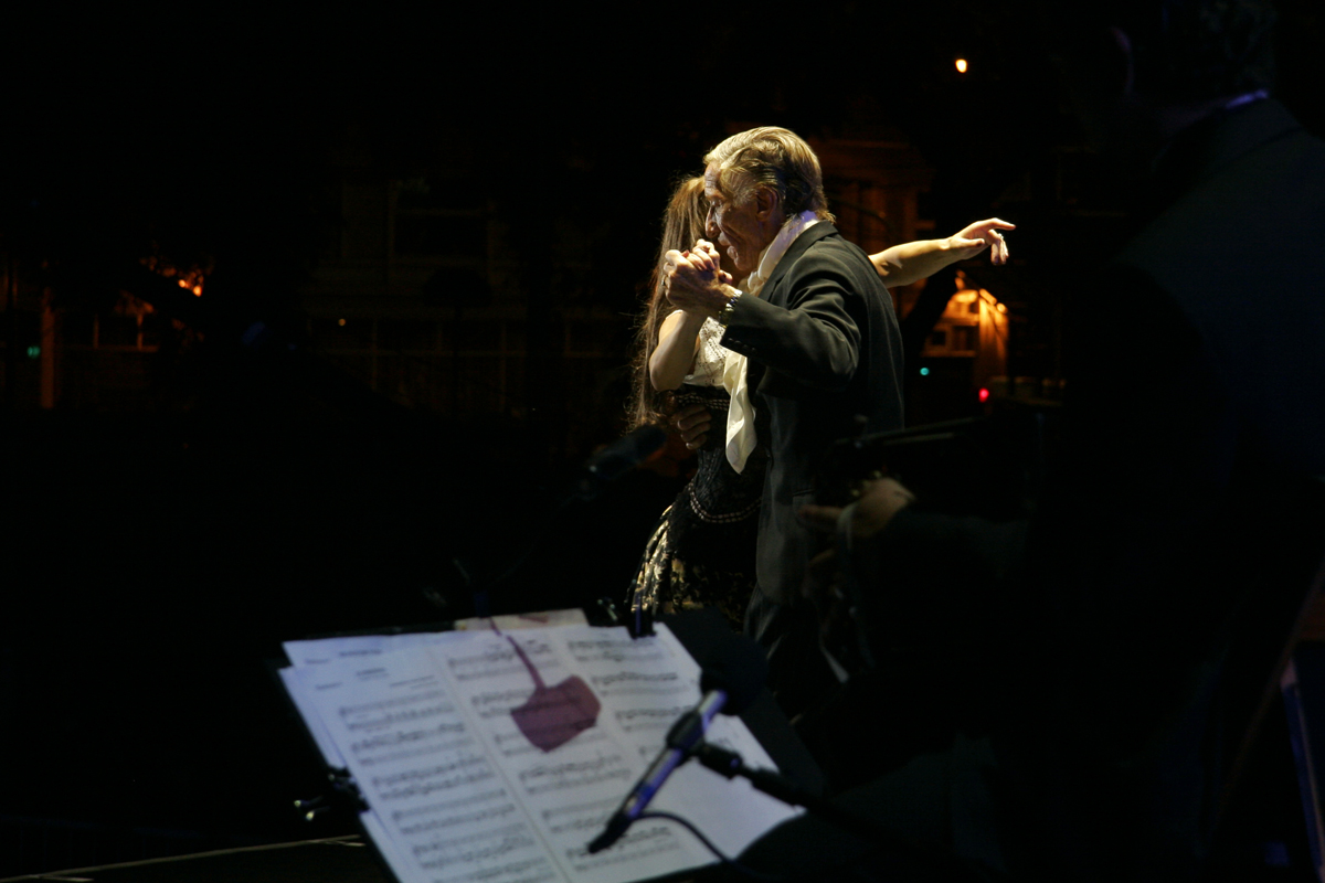 "Tango Argentino" (Claudio Segovia). Song: "El porteñito" (A. Villoldo). Dancers: El Flaco Dani (Daniel García) & Silvina Valz. At the Obelisco, Buenos Aires, 2011. Foto: Estrella Herrera.